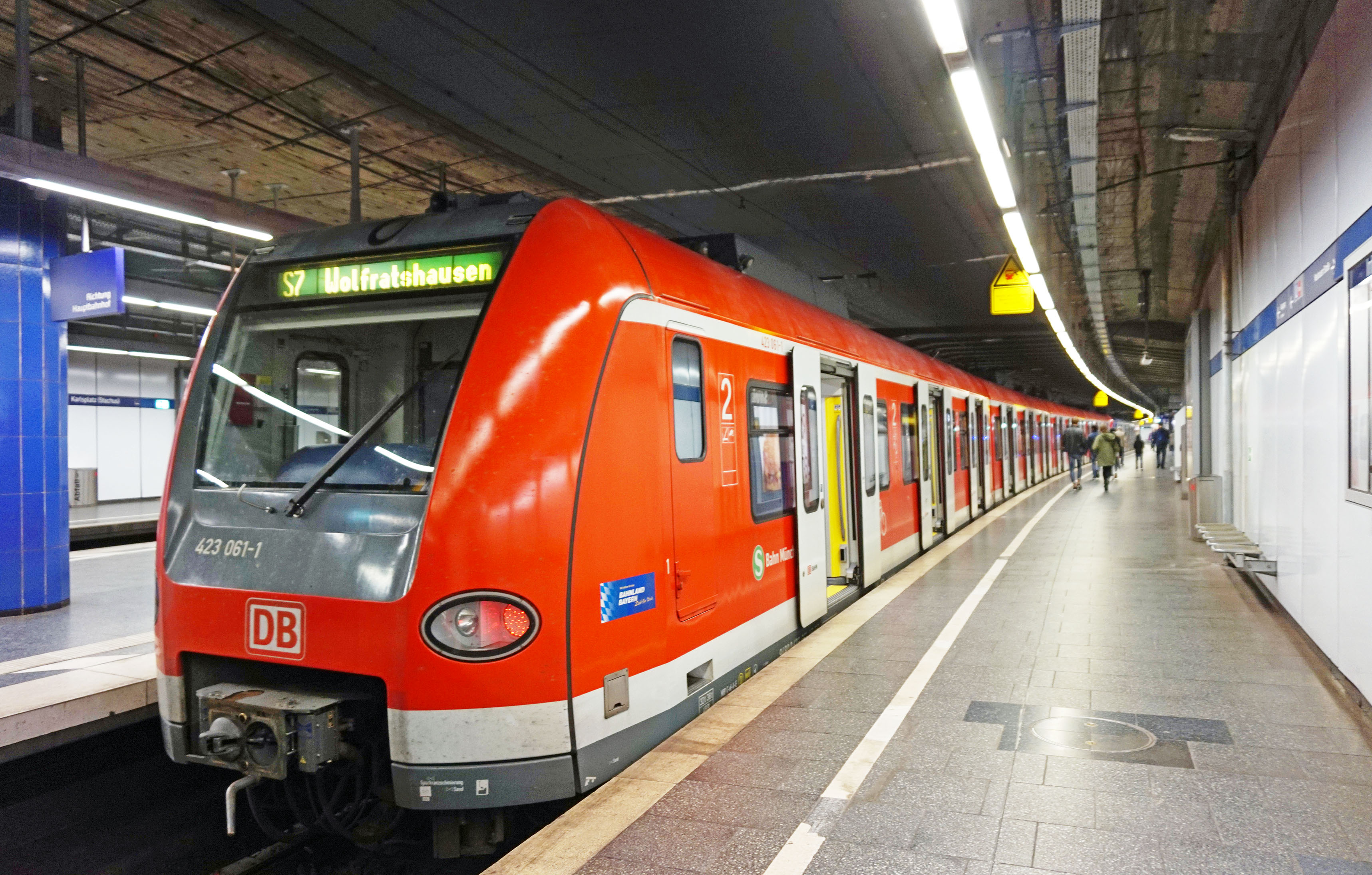 Karlsplatz train station in Munich.This photograph was taken with a Sony ILCE-5000